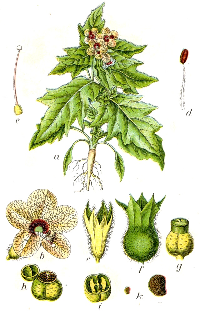 Hyoscyamus niger L. Original Description Echtes Bilsenkraut, Hyoscyamus niger